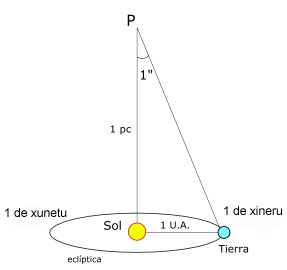 Parsec